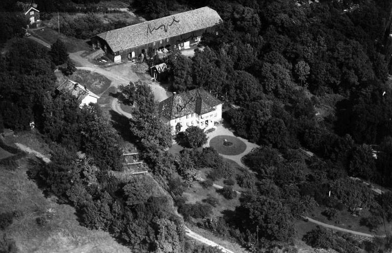 This is an image of Grimelund Gård in Oslo, Norway